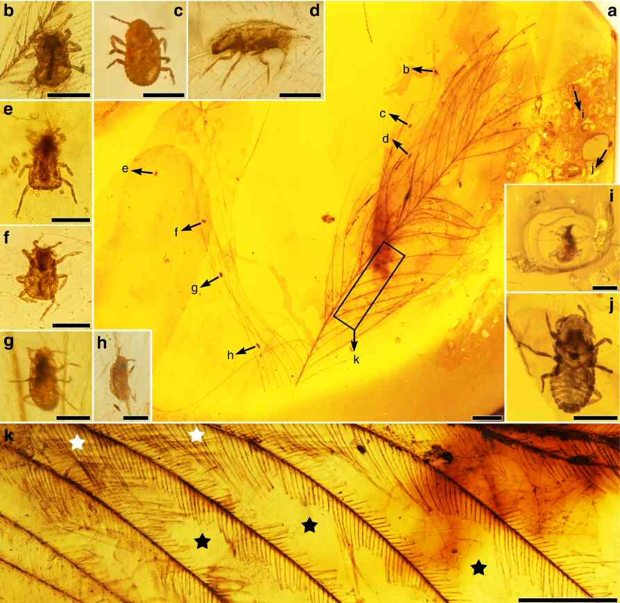 "AMBER No. 01 with the specimens of Mesophthirus engeli Gao, Shih, Rasnitsyn & Ren, gen. et sp. nov. from the mid-Cretaceous of Myanmar. a Photo of the whole feather and the locations of the insects, corresponding to the Supplementary Fig. 1. b–i Paratypic specimens CNU-MA2016001 to CNU-MA2016008. j Holotypic specimen CNU-MA2016009. k Parts of the feather show complete areas at basal part and adjacent largely damaged area between barbs. Representative, star in white referring to relatively complete barbules, star in blank referring to large areas of damages. Scale bars, 1 mm (a), 100 μm (b–j), and 0.5 mm (k)."